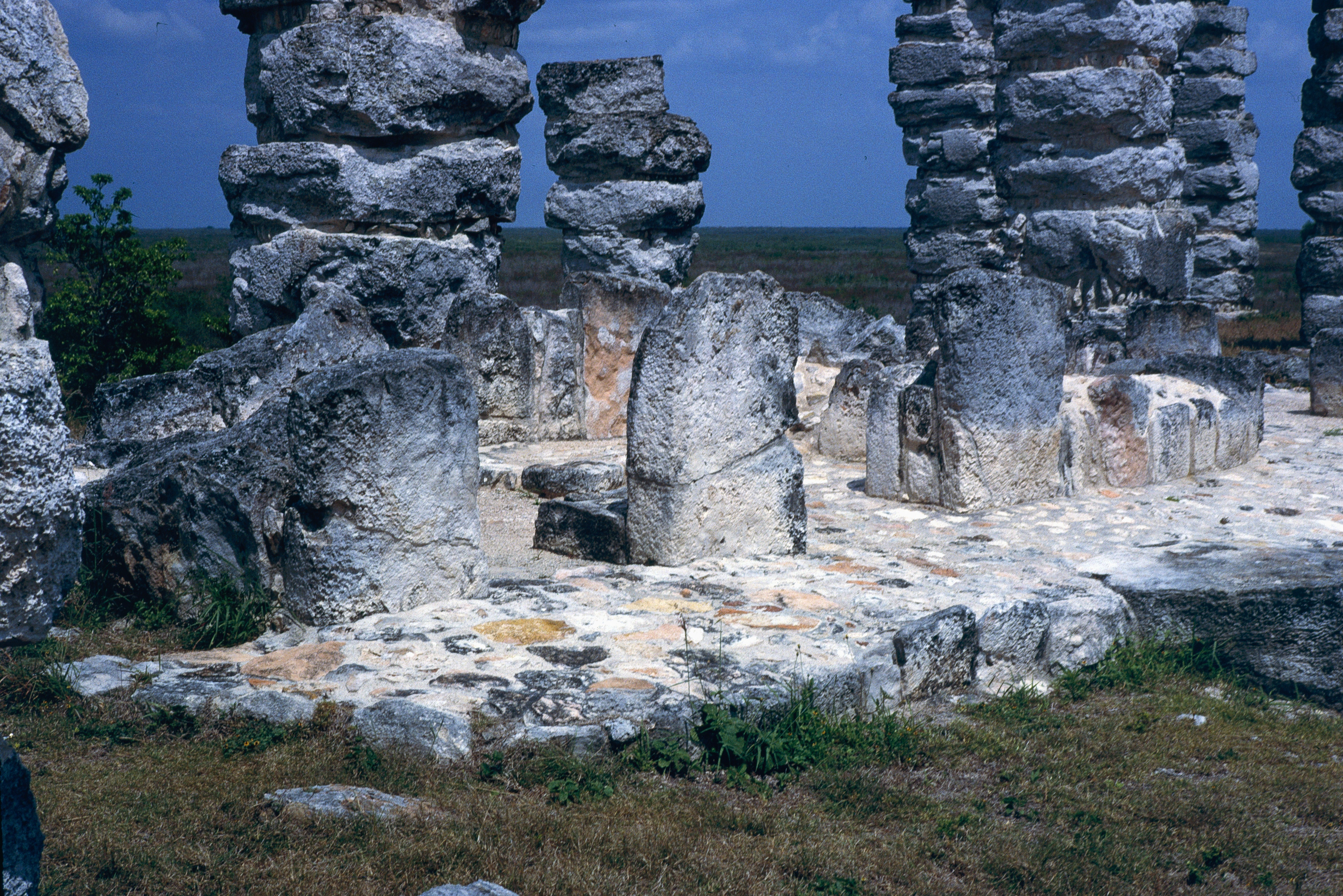 Ake, Yucatan, Mexico: Palace of the Columnes, possible entrance